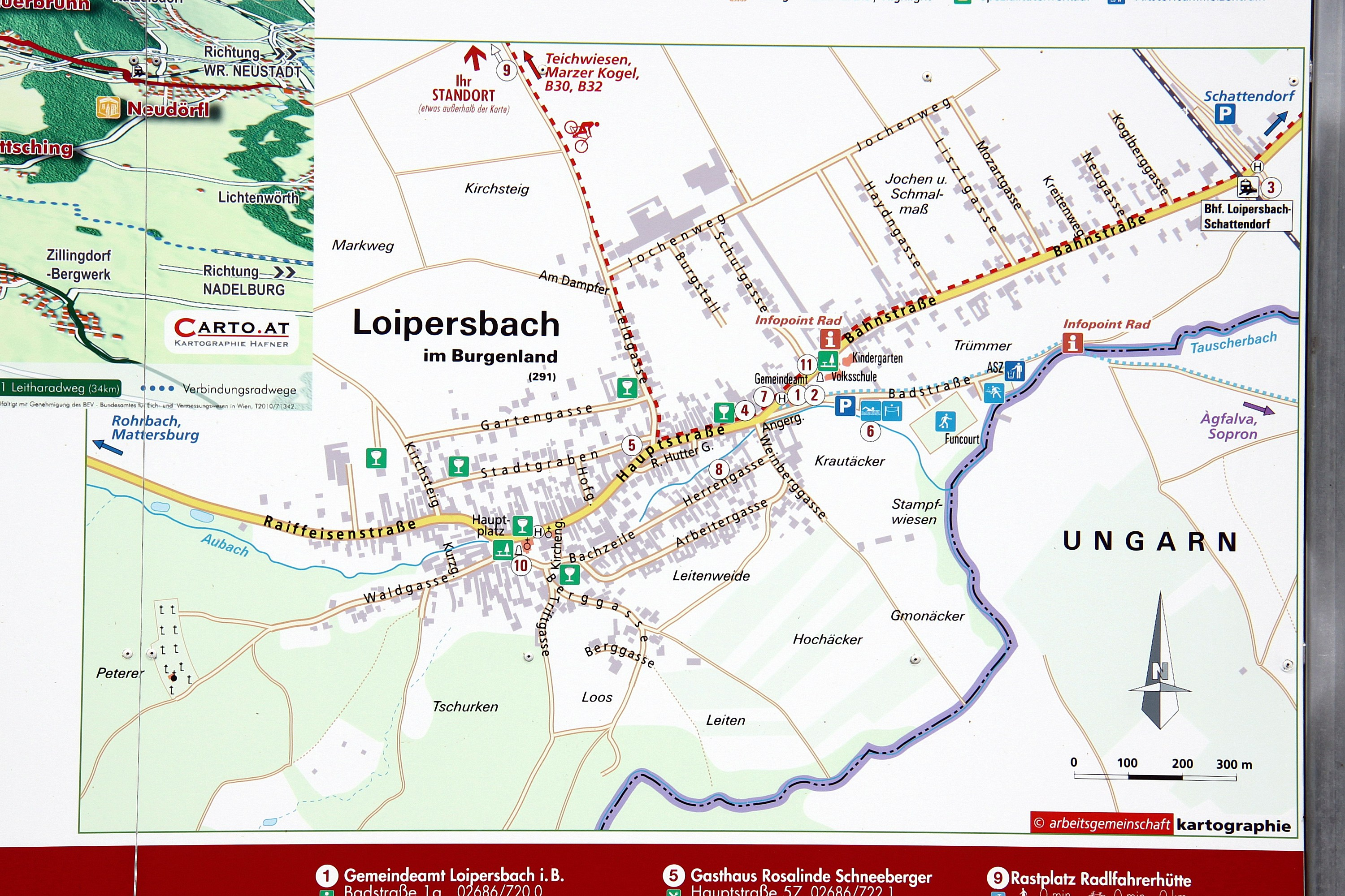 Local plan - Loipersbach im Burgenland Object location47° 41′ 53.19″ N, 16° 29′ 17.25″ E